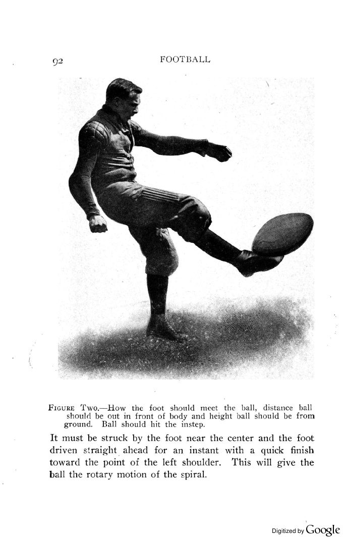 How the foot should meet the ball.